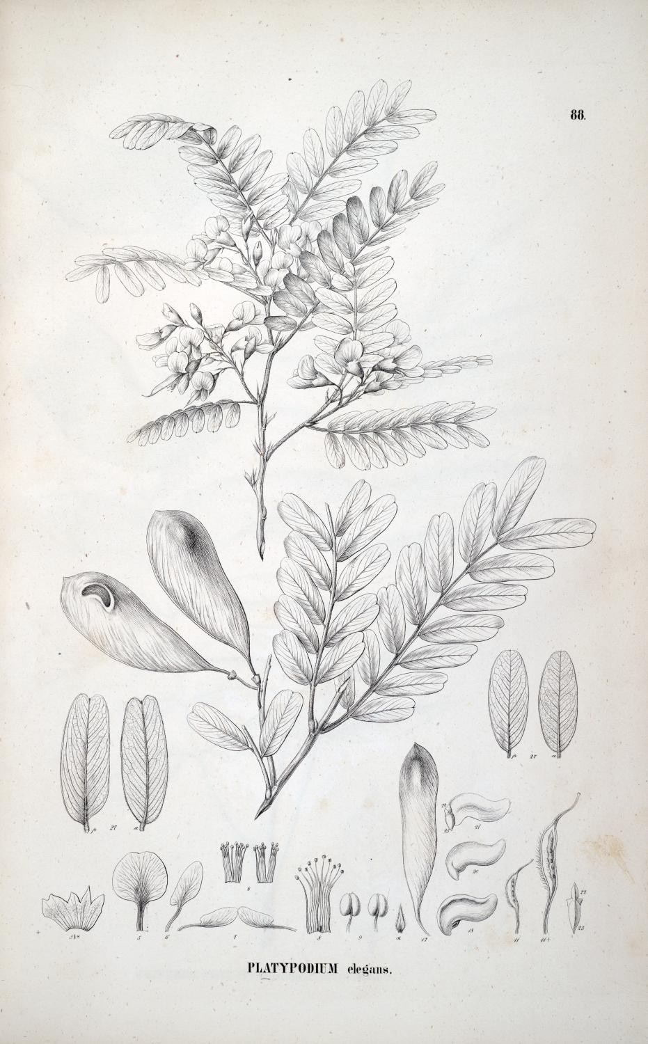 An illustration of the various parts of the tree Platypodium elegans from the Flora Brasiliensis